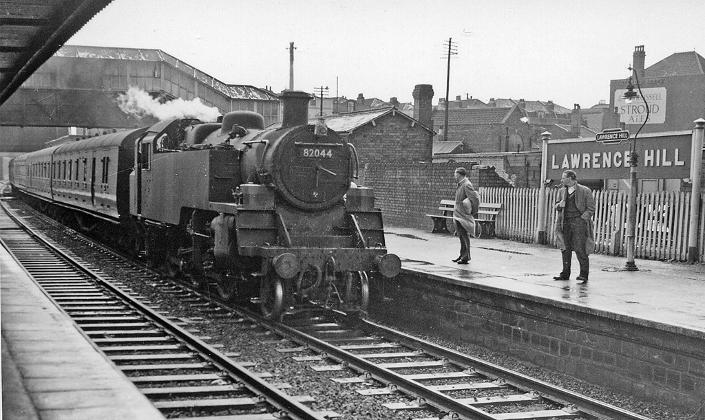 Local train at Lawrence Hill Station. View southward, towards Bristol Temple Meads (also North Somerset Junction, Bath etc.); ex-Great Western (Bristol & South Wales Junction) main lines. The train is the 15.00 Temple Meads to Severn Beach via Avonmouth, headed by BR Standard 3MT 2-6-2T No. 82044.